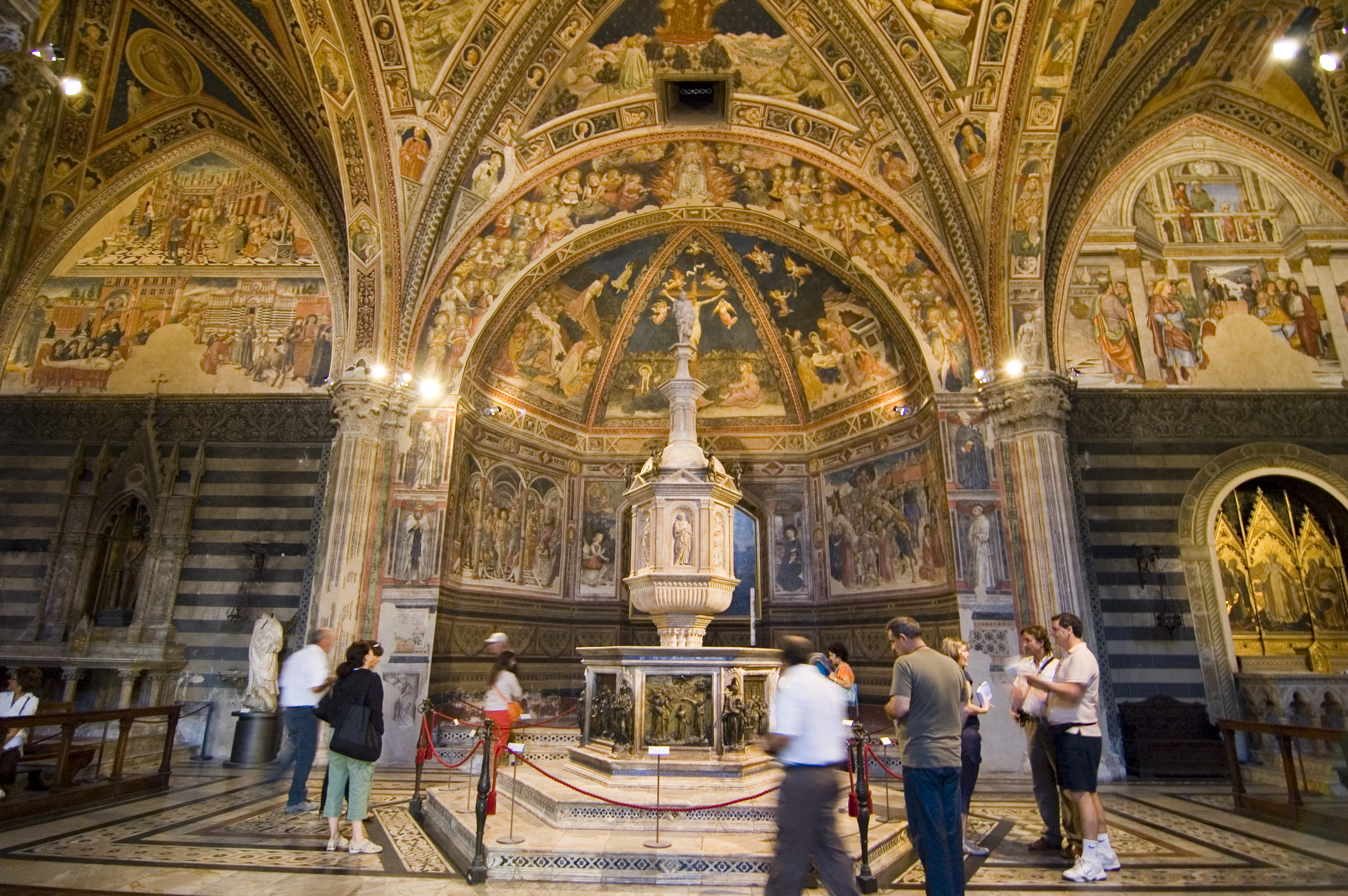 see above